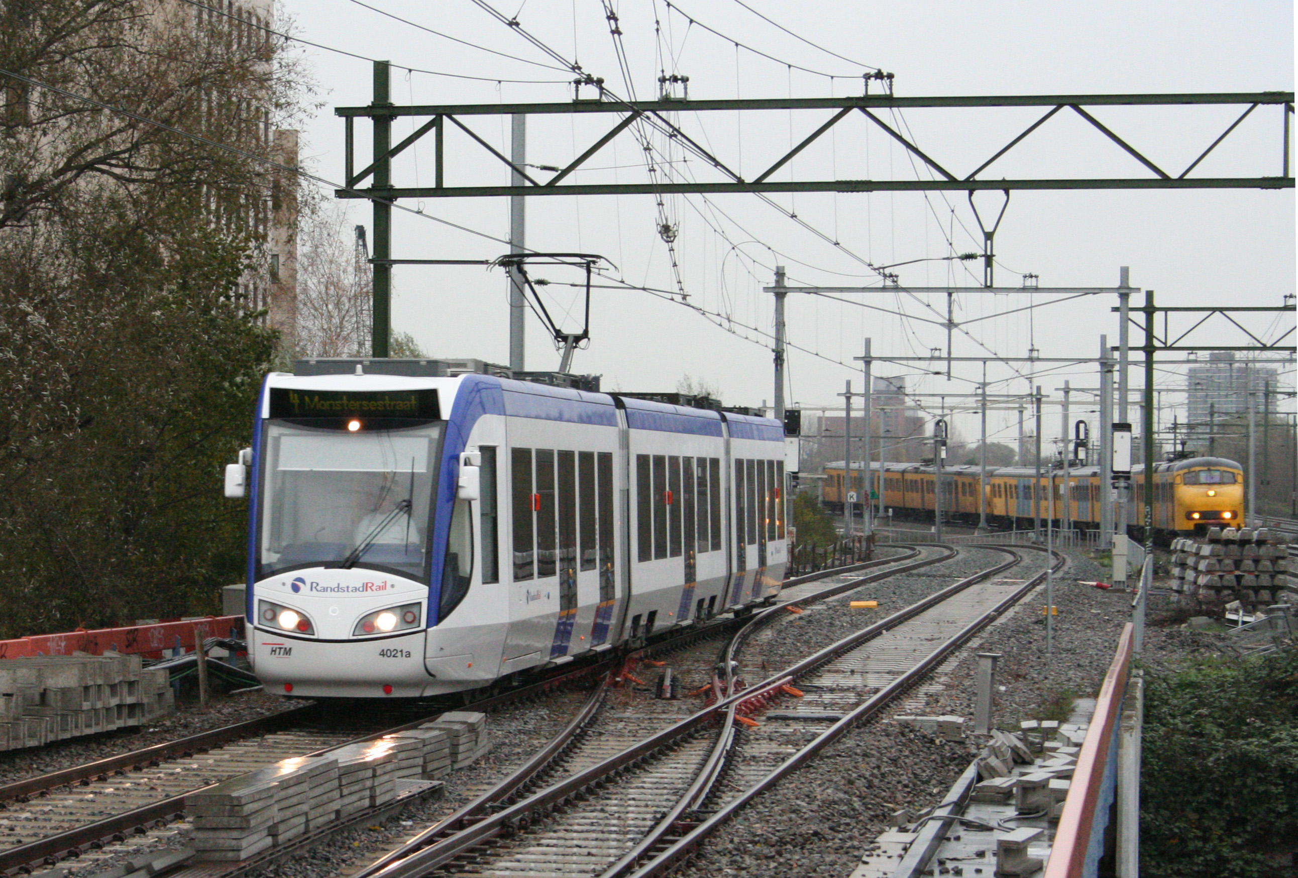 RegioCitadis at former train infrastructure in The Hague.